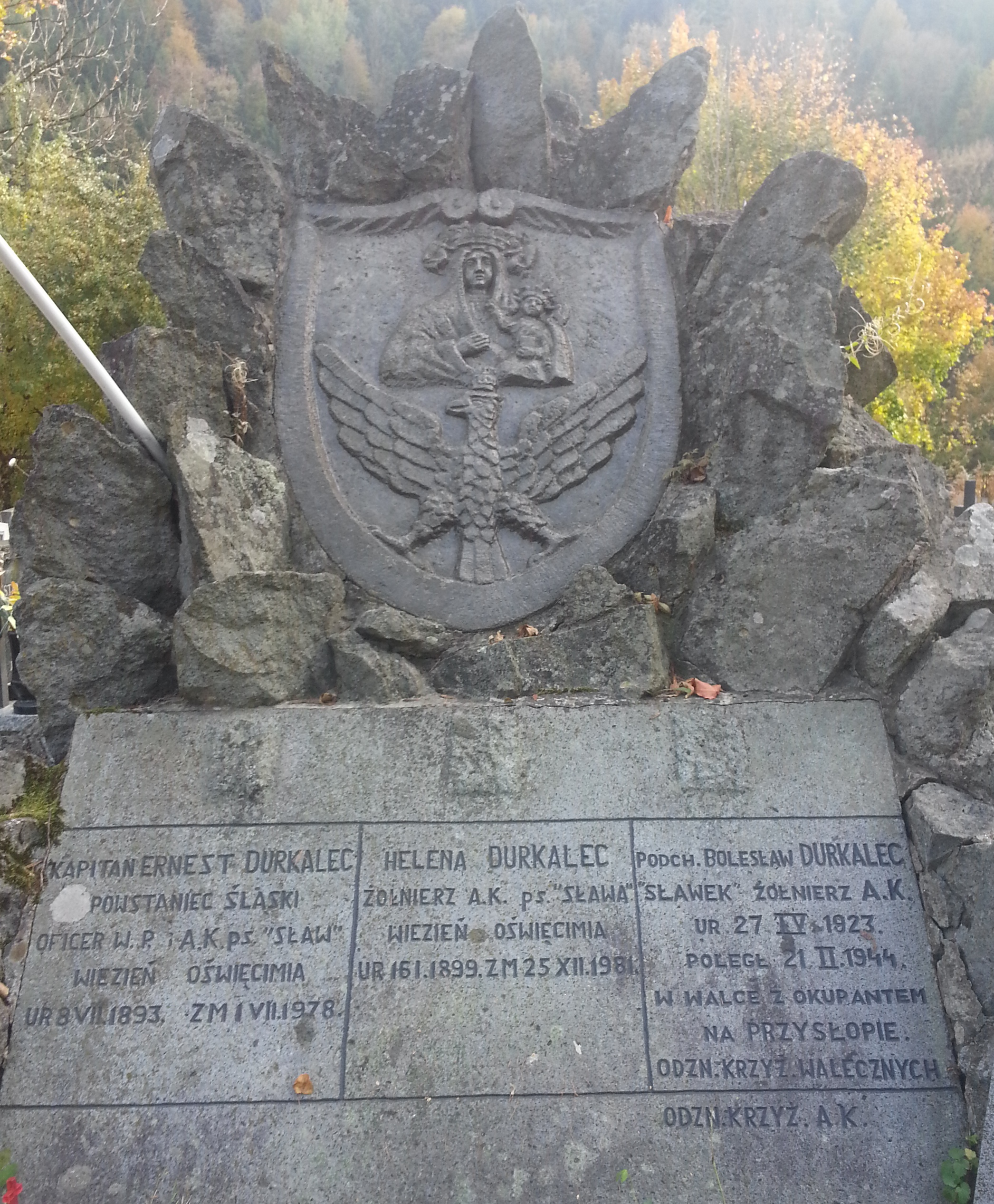 Durkalec vault in Szczawnica